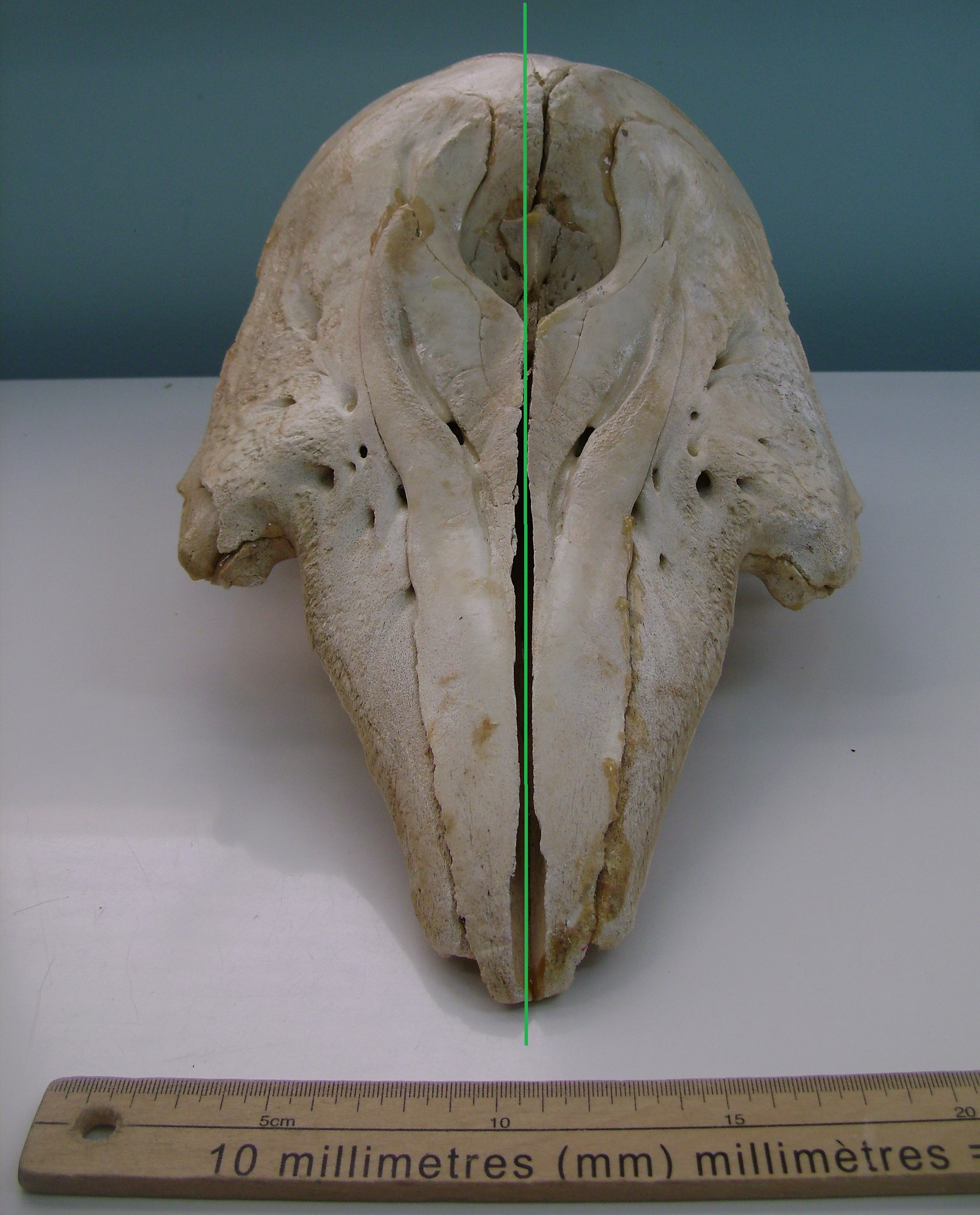 The green line shows the odontoceti-typical cranial asymmetry of a beluga (Delphinapterus leucas) skull. The mandible is missing.